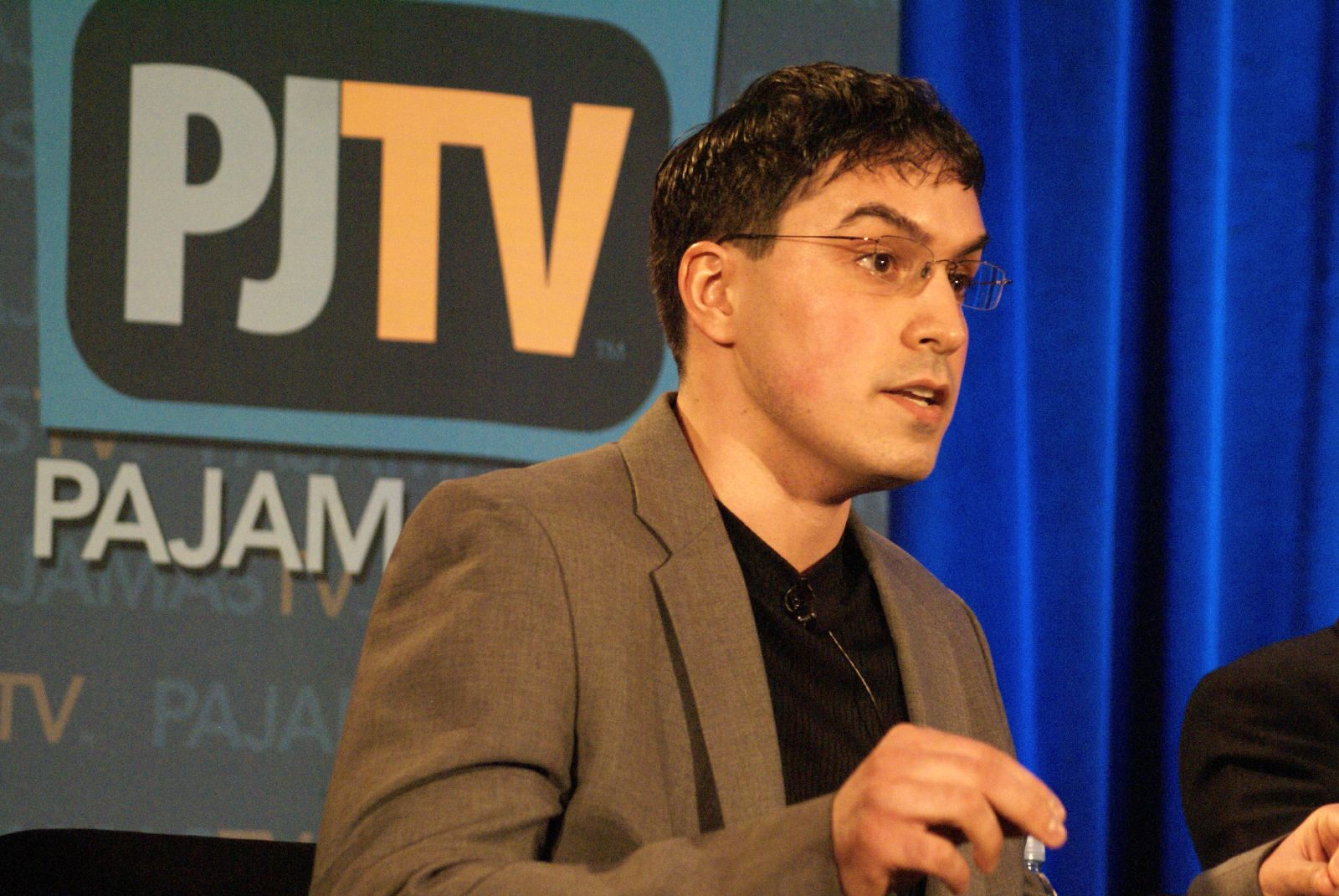 Jason Mattera speaking at the Pajamas TV Conservatism 2.0 conference at CPAC